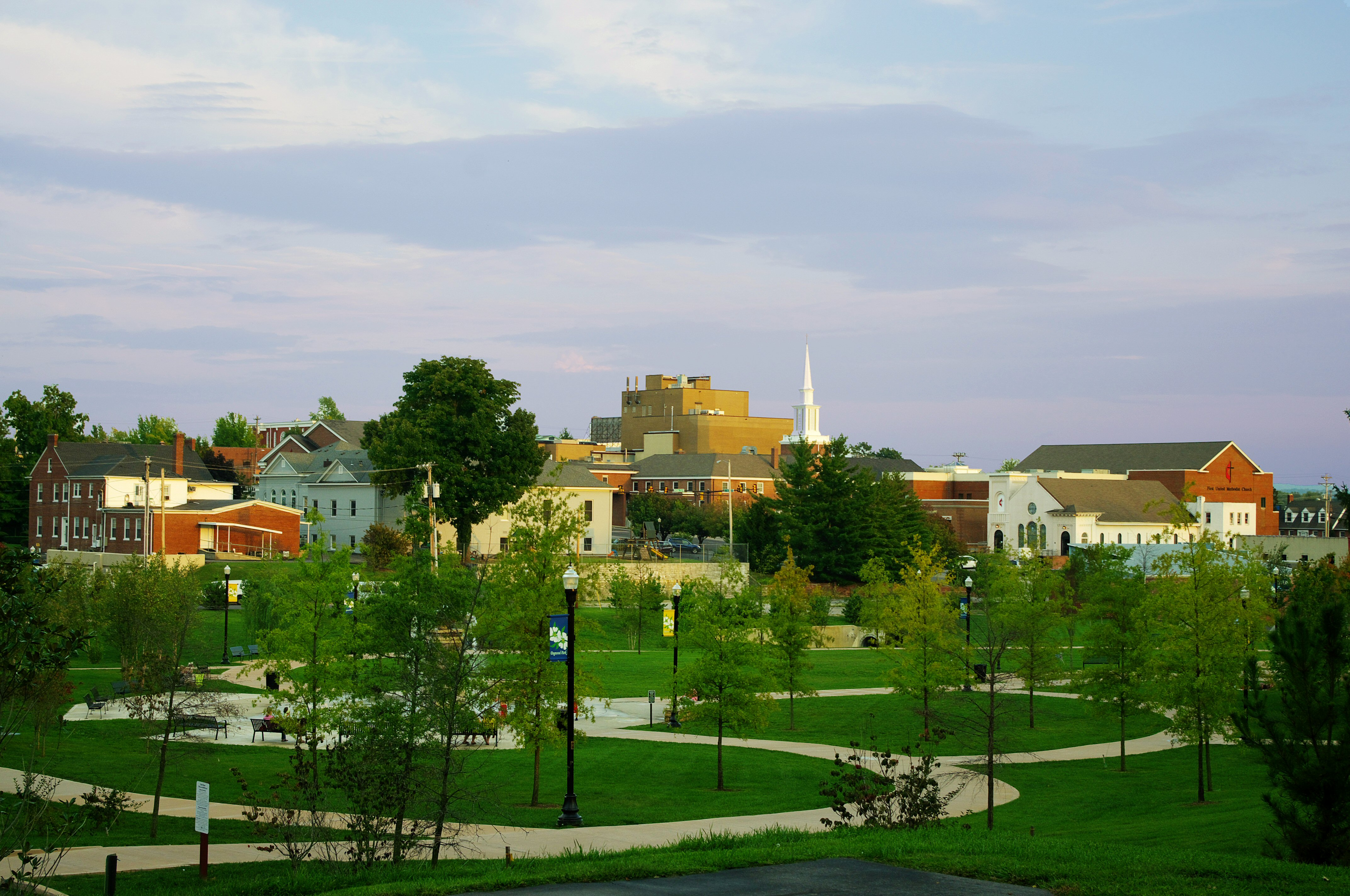 Cookeville, Tennessee, United States, viewed at sunset, looking east. Dogwood Park is in the foreground.